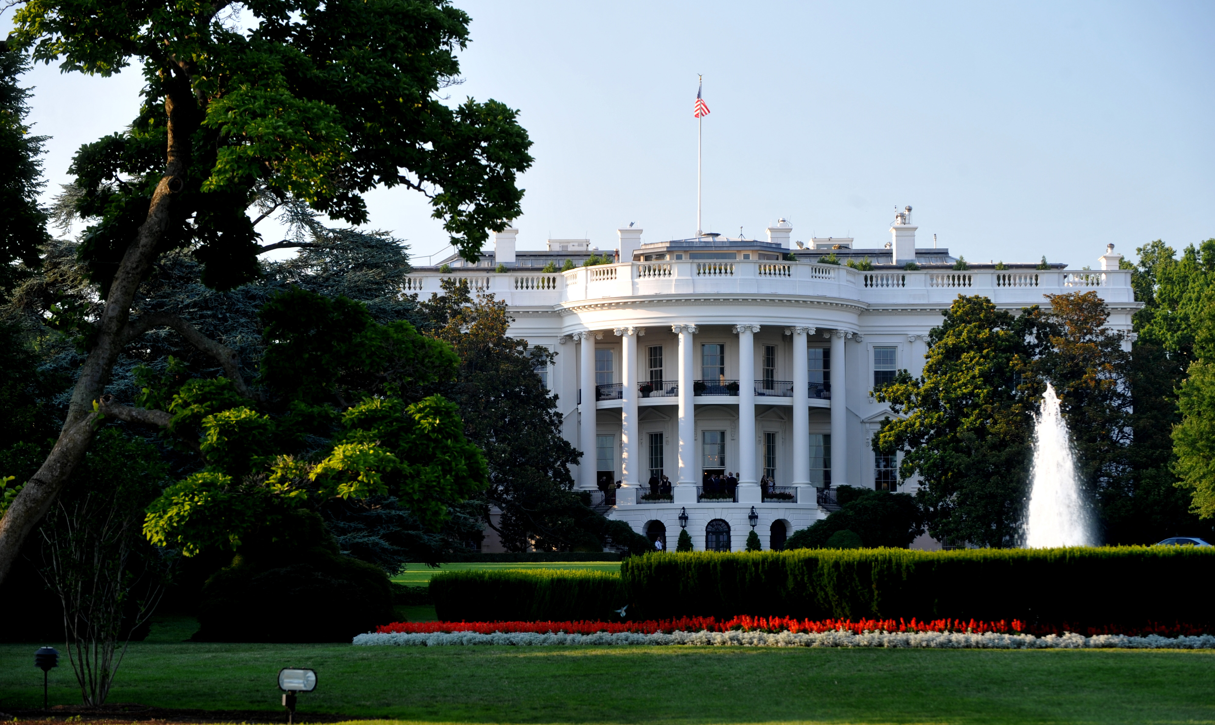 The White House in Washington DC